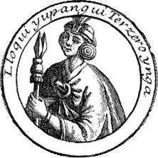 Portrait of Lloque Yupanqui in the frontispiece to the fifth Decade of Historia general de los hechos de los castellanos en las Islas y Tierra Firme del mar Océano que llaman Indias Occidentales by Antonio de Herrera